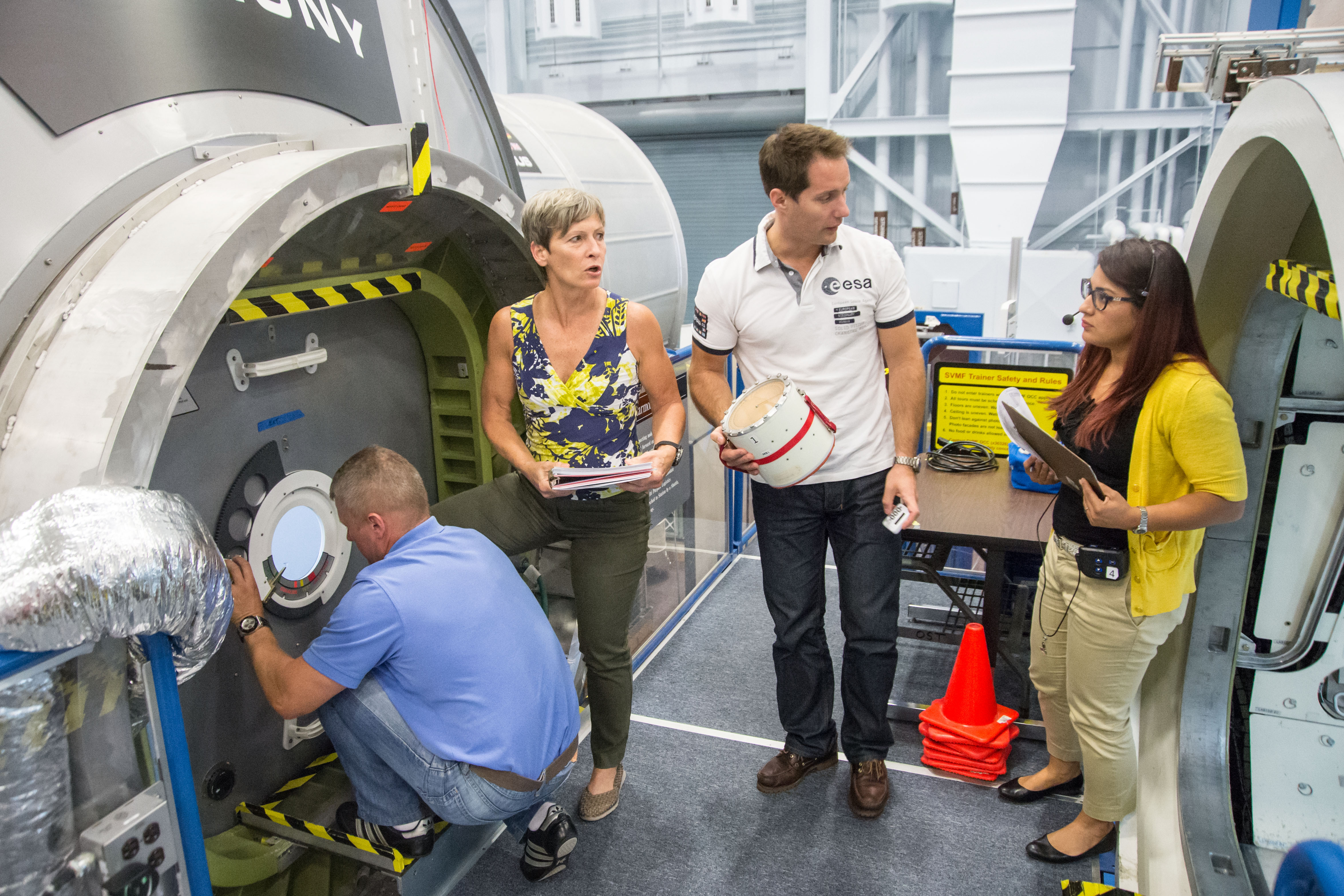 Expedition 50/51 crew members Peggy Whitson, Thomas Pesquet, and Oleg Novitsky during Depress Scene Generic training.